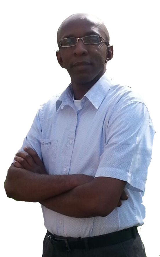 Rene picture